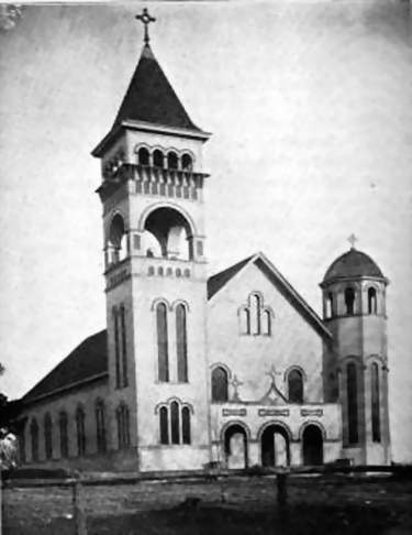 St. Mary's Catholic Church in Adair, Missouri as it appeared circa 1910. Listed on the National Register of Historic Places in 1974.